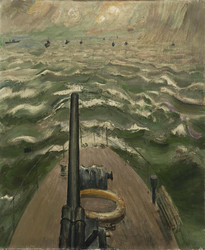 View along the barrel of a gun, towards the prow of a ship. Distant are several other ships sailing in the convoy.